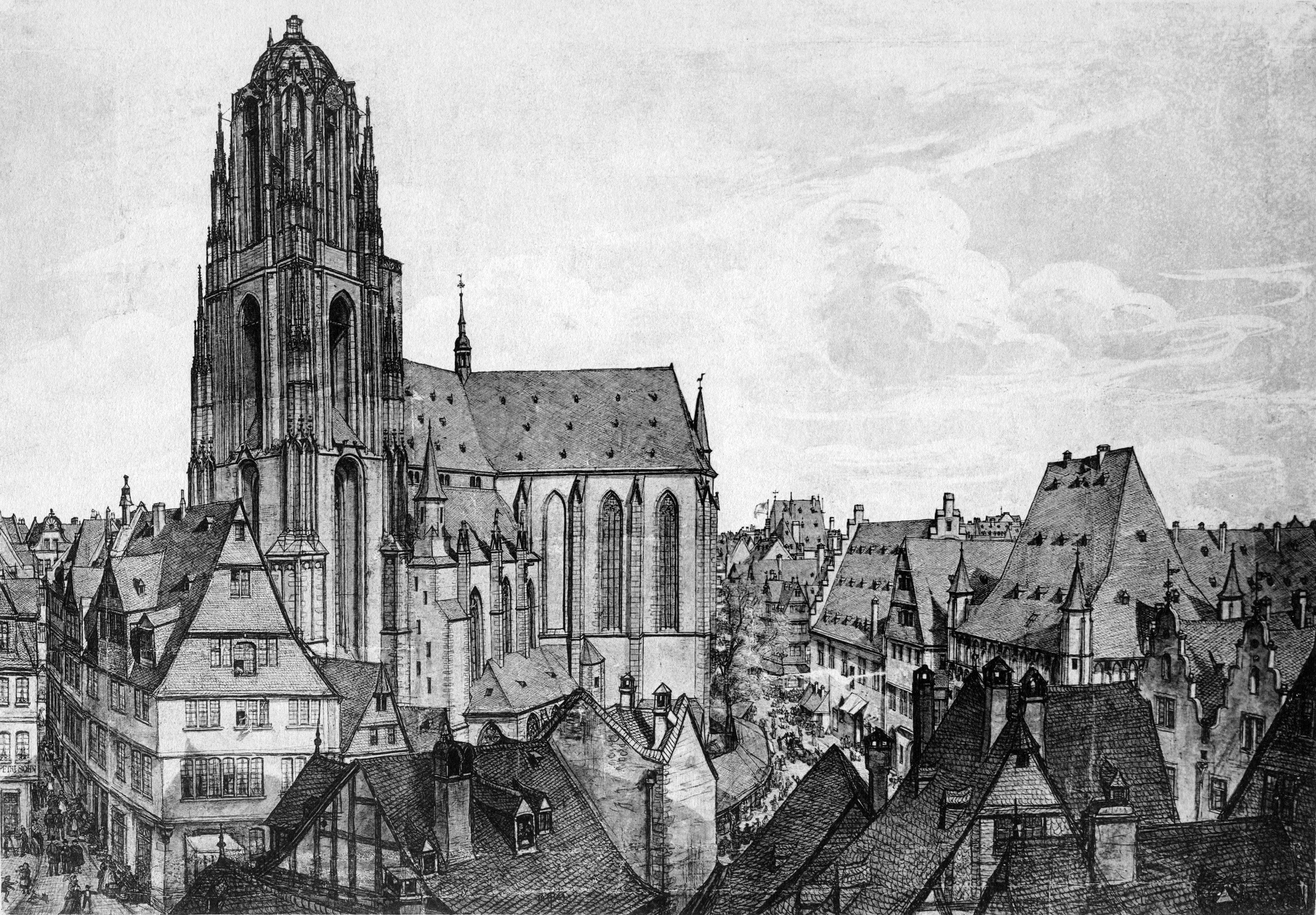 Frankfurt on the Main: The Cathedral as seen from the roof of a house at the Cabbage Market